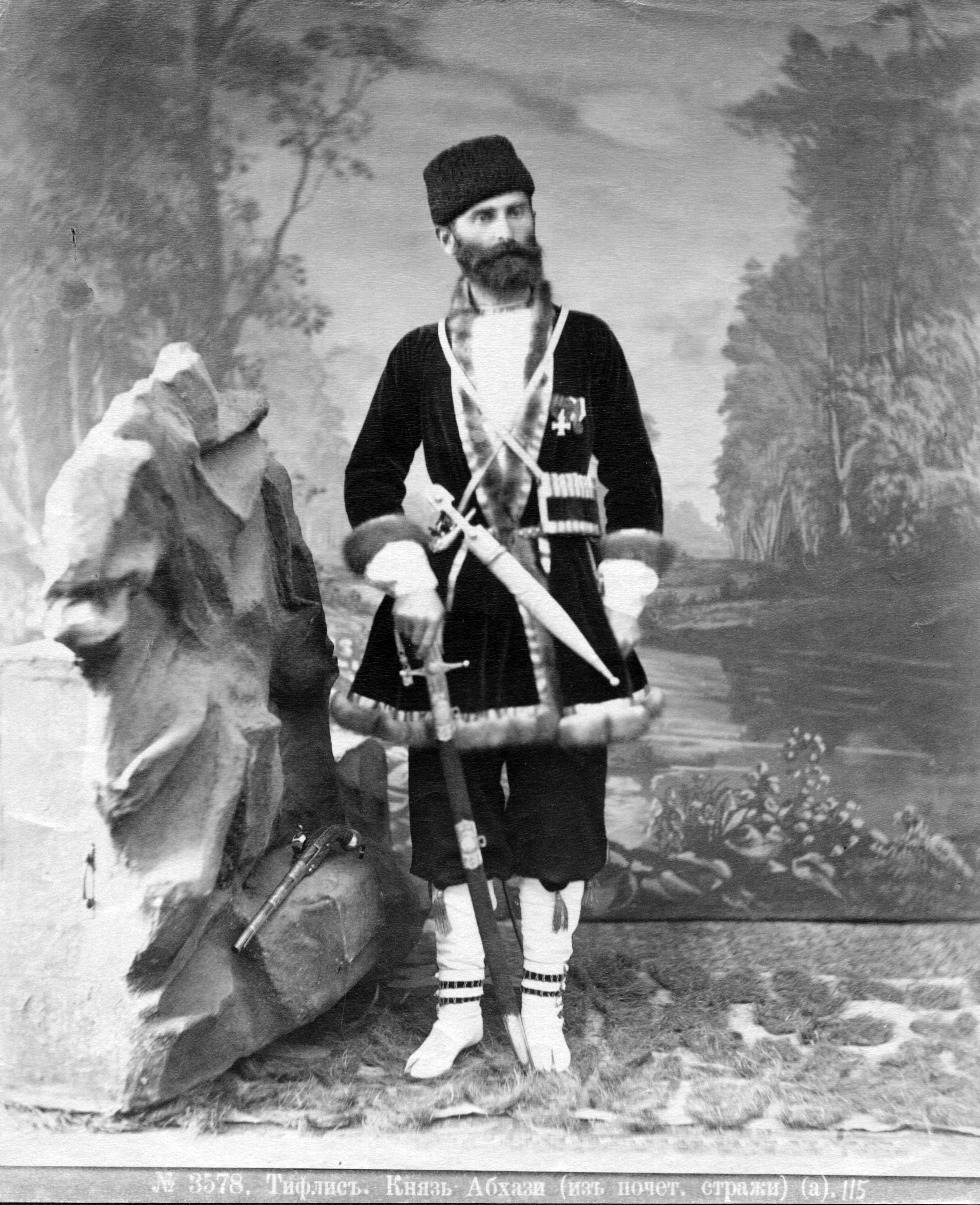 Abkhaz tavadi